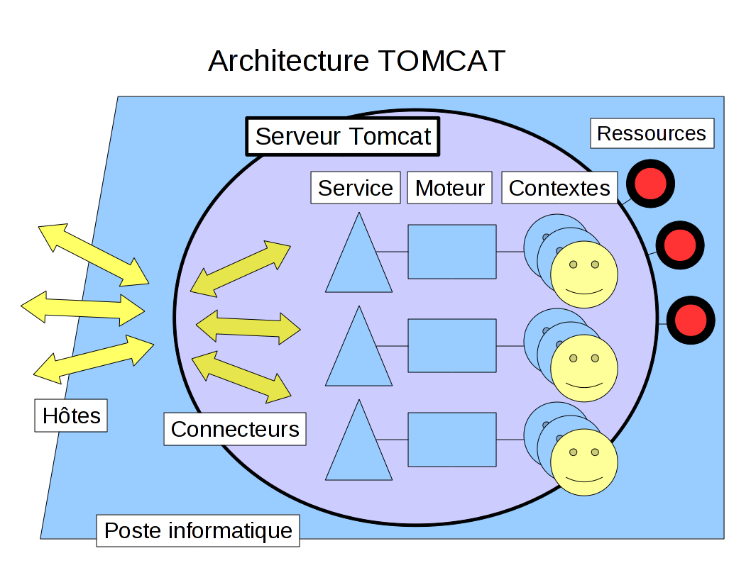 Tomcat architecture